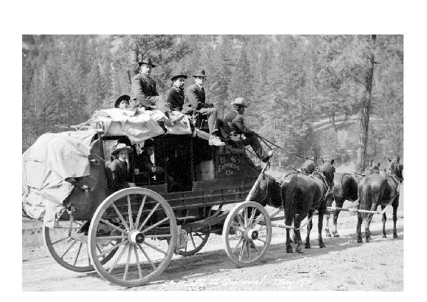 Frank Swannell and crew on BC Express Stage. Photo taken 1911.